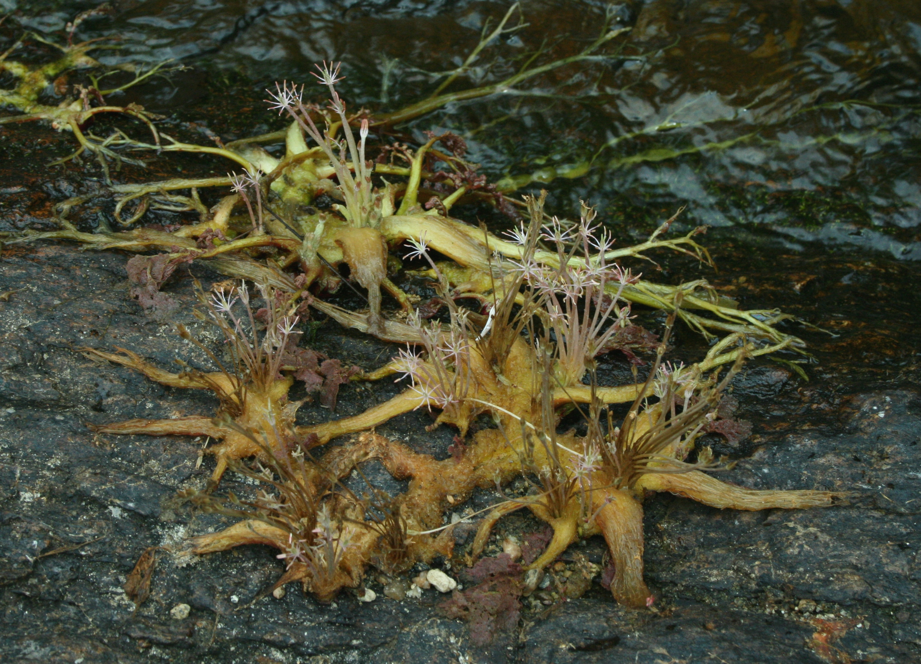 Flowering Apinagia longifolia in the stream of Rio Tabaro, Rio Caura area, Venezuela